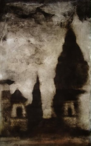 Michela Sbrana, Passaggio, 2008, resinotipia, cm 117x70, Collezione privata.